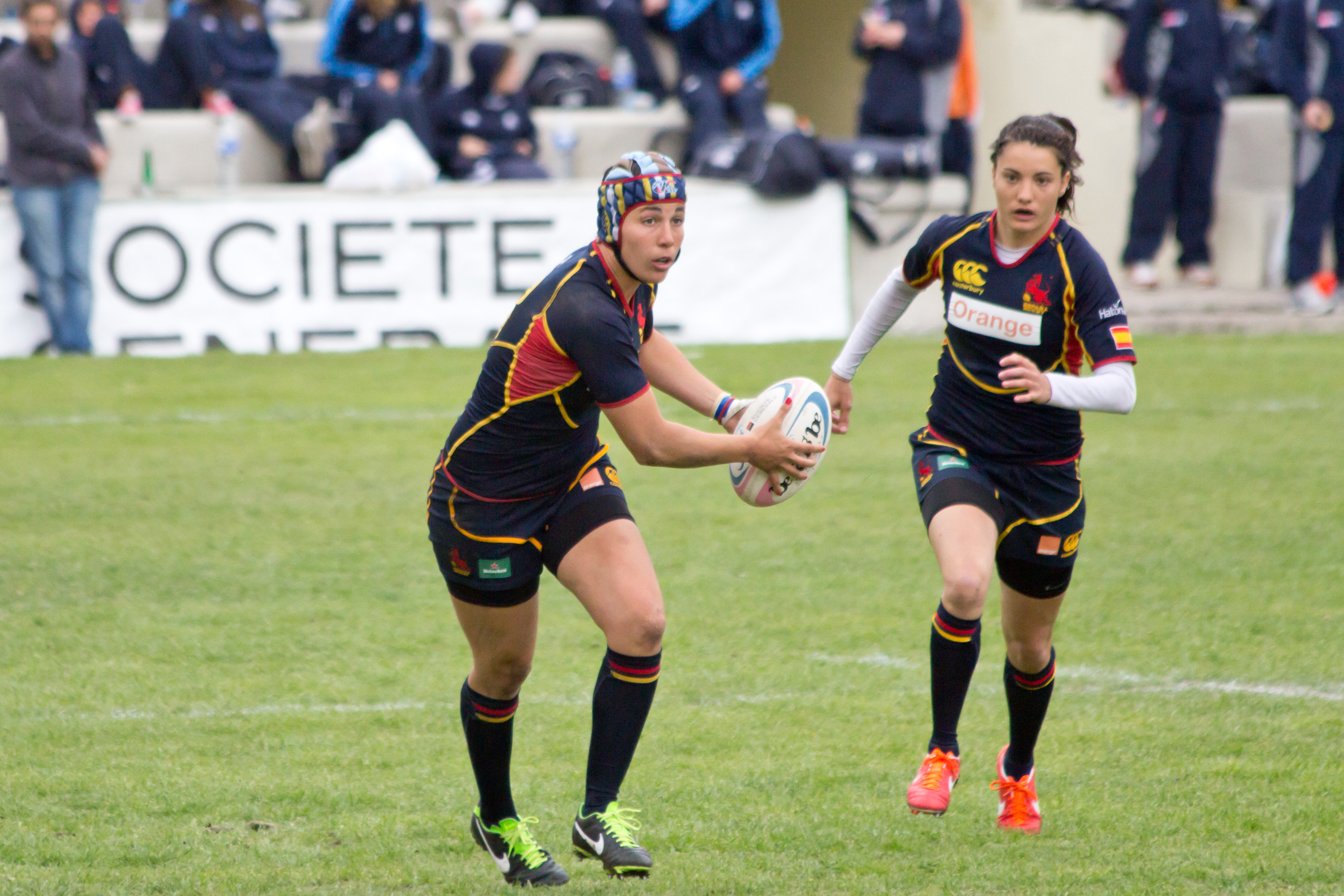 Game of the 2013 Women's European Qualification Tournament between Italy and Spain 7-38(b).